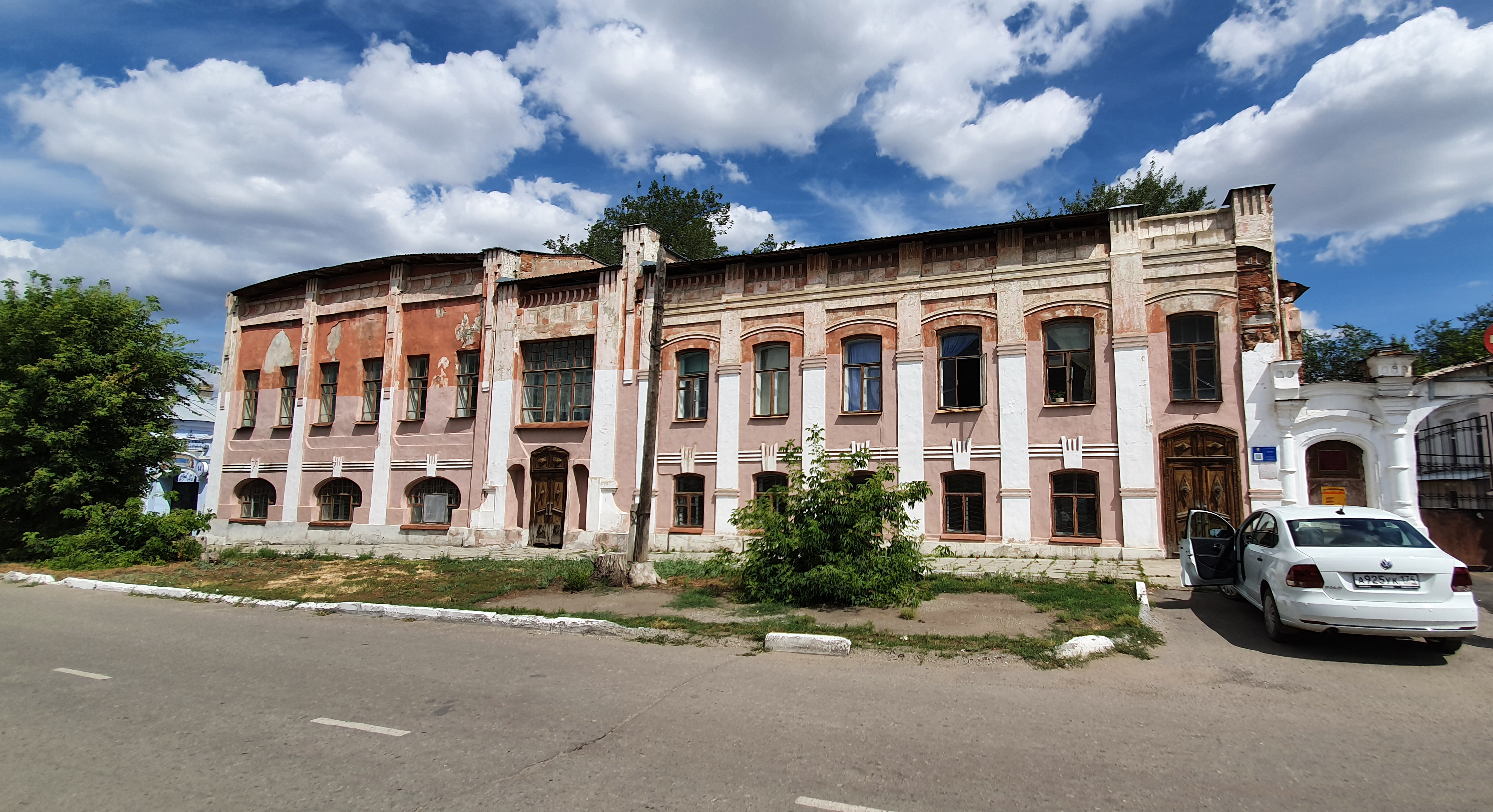 Yaushev House, a historical building in Troitsk, Chelyabinsk Oblast, Russia